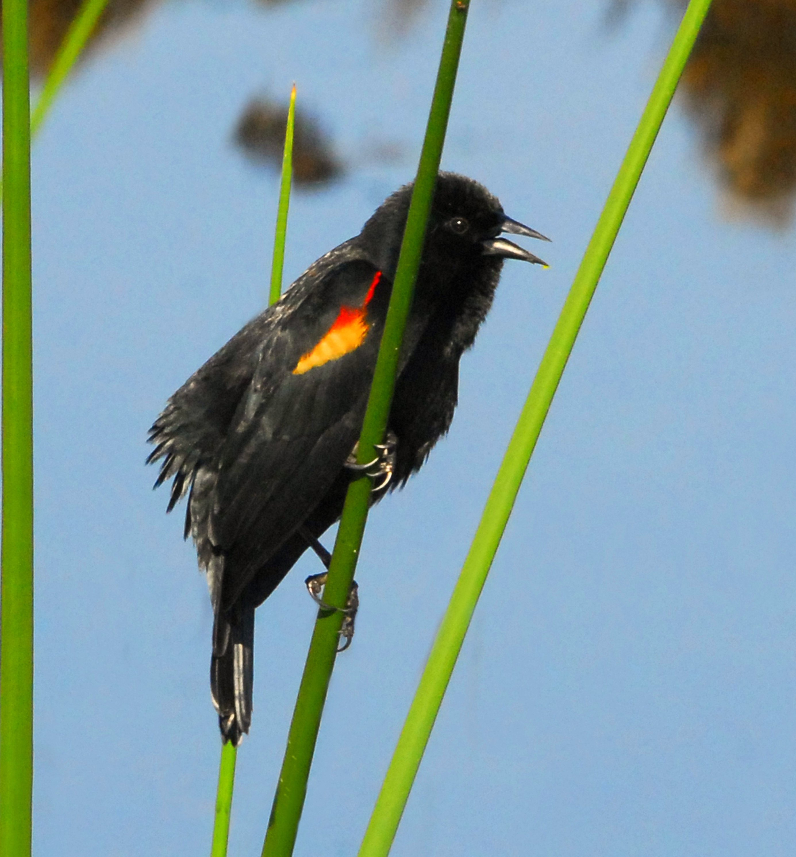 Red-winged Blackbird at Lake Woodruff